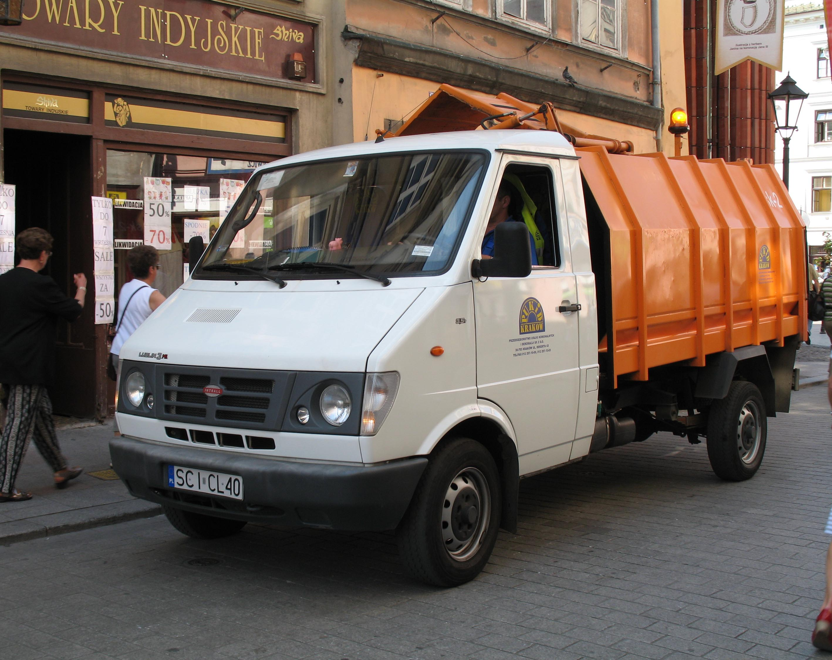 Intrall Lublin 3 Mi 3,5t in Kraków, Poland.